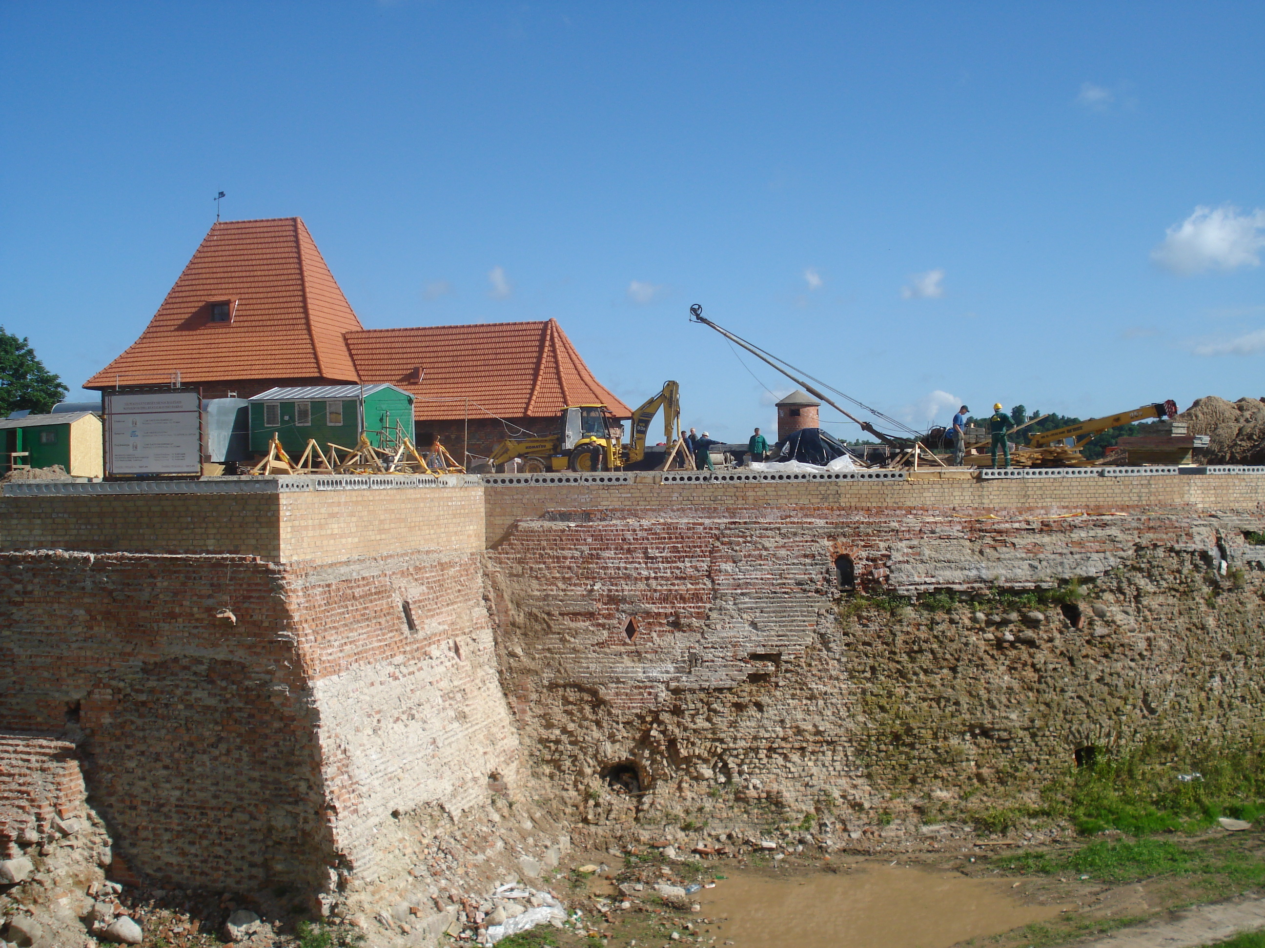 The Bastion of Vilnius Defence Wall. 20/18 Bokšto Str.